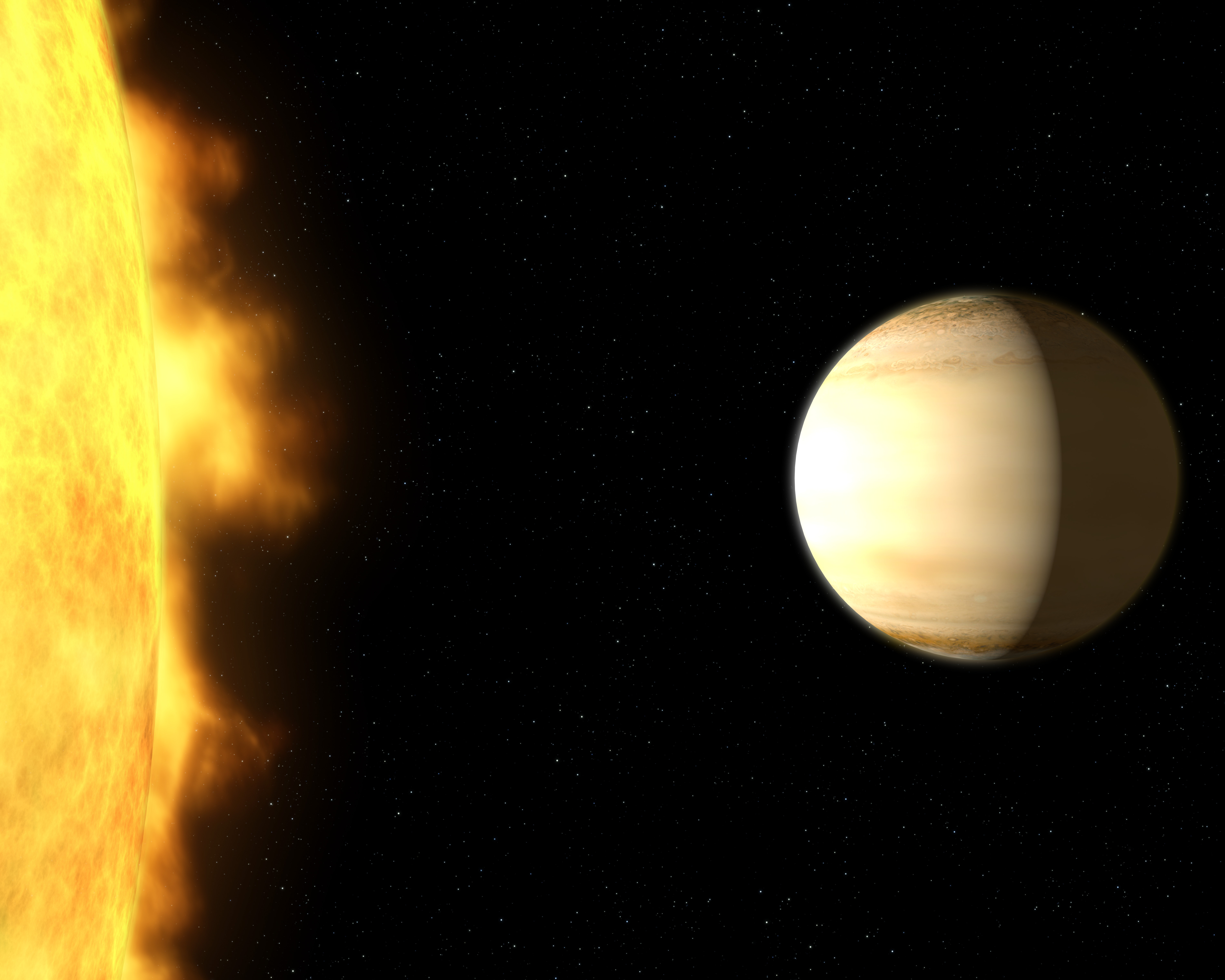 A team of British and American astronomers used data from several telescopes on the ground and in space — among them the NASA/ESA Hubble Space Telescope — to study the atmosphere of the hot, bloated, Saturn-mass exoplanet WASP-39b, about 700 light-years from Earth. The analysis of the spectrum showed a large amount of water in the exoplanet’s atmosphere — three times more than in Saturn’s atmosphere. WASP-39b is eight times closer to its parent star, WASP-39, than Mercury is to the Sun and it takes only four days to complete an orbit.